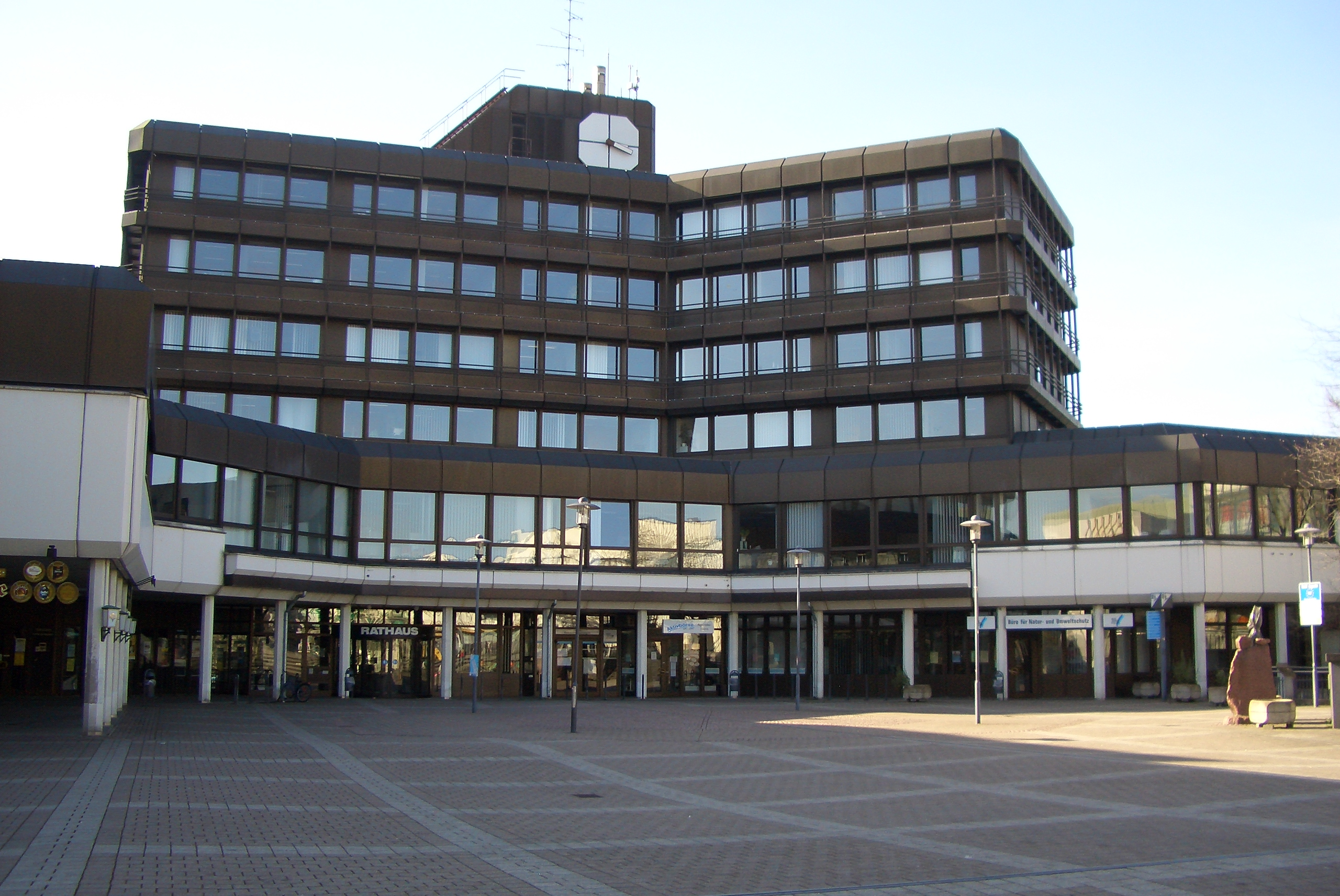 Photo of eastern side of townhall of Sankt Augustin, Germany